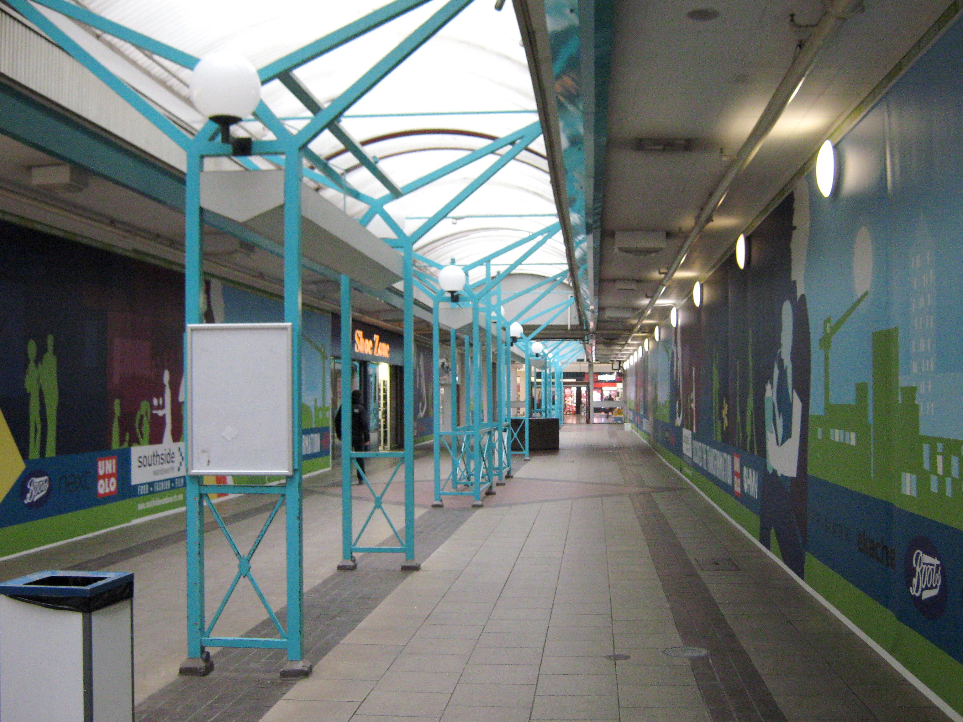 This is a remaining old section of the shopping centre that as of 2012 has not yet been redeveloped. Most of the closed shop frontages have been covered with hoardings, leaving a rather isolated branch of ShoeZone.